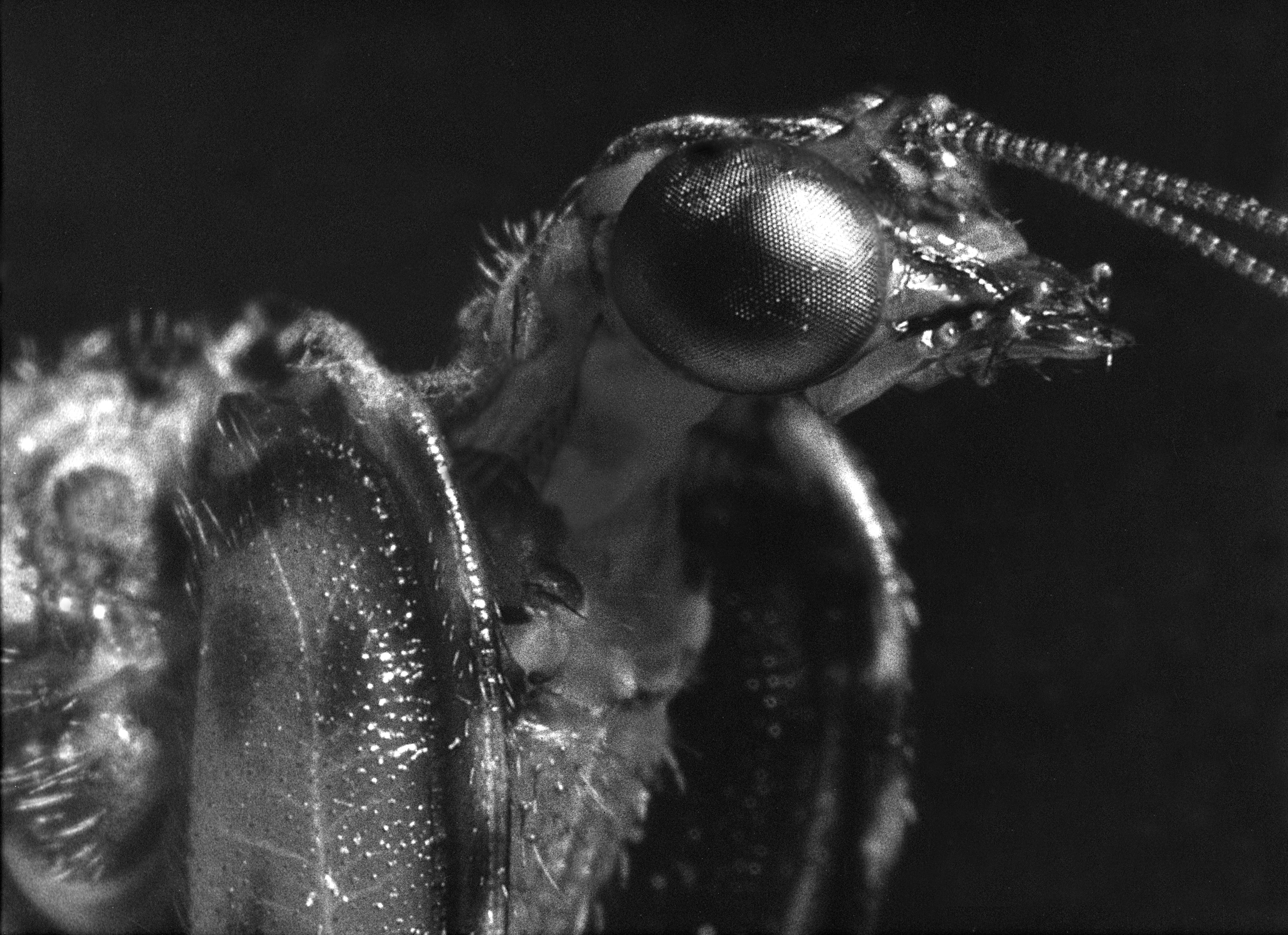 Macrophotograph of a live unique Neuropteran in the Mantispidae family that is usually 1.5 inches in length, flies like a lace wing or ant lion, can mimic wasps, but hunts like a Praying Mantis using the same kind of pincer-like, grasping, powerful modifications of the front two legs. With eyes like these, the hunting comes easy. Even the larvae are carnivores, feeding on spiders and spider eggs and larvae. Very close macrophotograph of a live Mantisfly using Kodak Panatomic-X black and white negative 35 mm film.Photograph of live Mantisfly found in the Santa Rita Mts. of Arizona, USA, August 1963. Equipment used to capture such close-ups of live insects was Asahi Pentax 35 mm film camera, with highly extended 50 mm lens using extension tubes for macrophotography, and a Strobonar Futuramic II electronic flash. Original 12 x 15 black and white print on Kodak Polycontrast N photopaper was scanned in 2010 to produce a digital version of this stunning photograph.